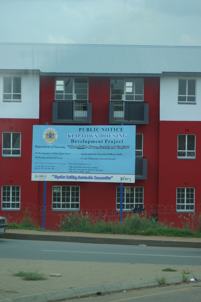 Photographer: thomas sly Source: flickr ([1])